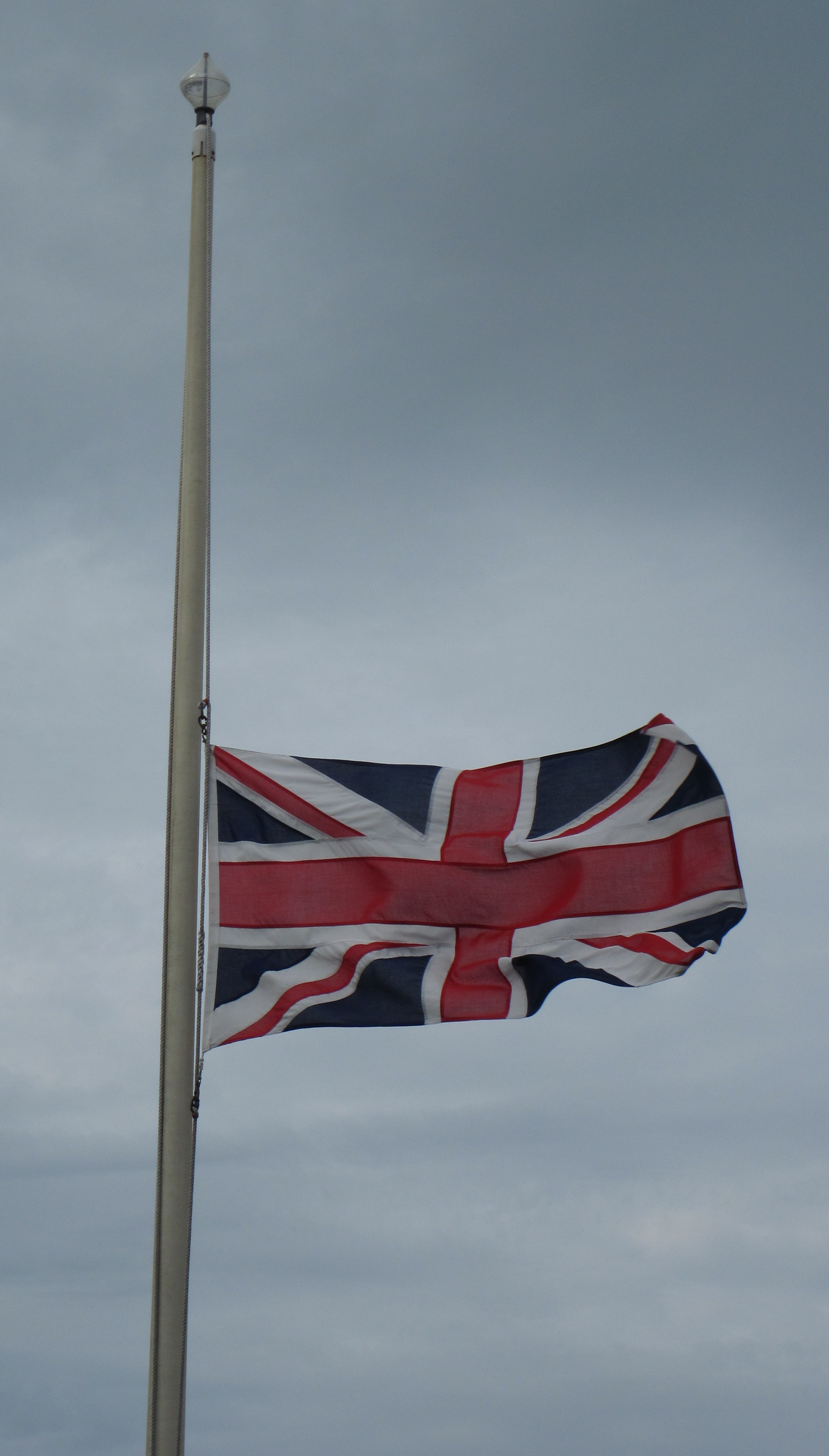 Flag at half mast at Elizabeth Harbour, Jersey